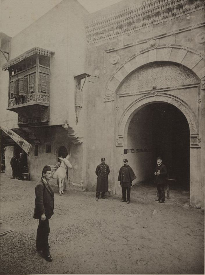 View of an archway, with French gendarmes standing in front of it. Black-and-white photograph.